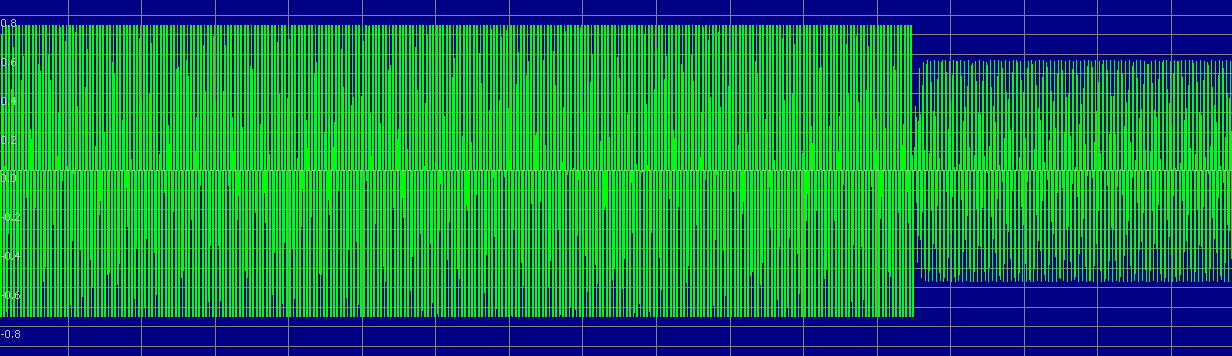 Created by David Jordan: image of a function tone waveform.